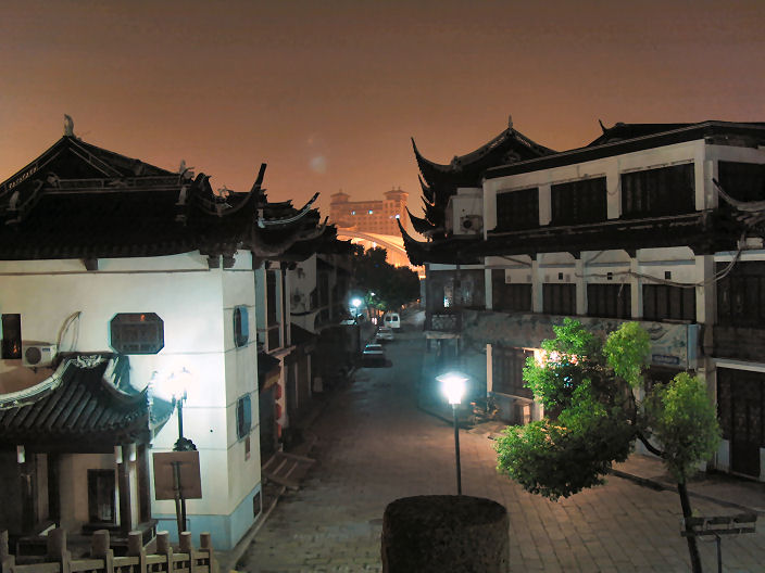 Changzhou